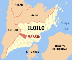 Map of Iloilo showing the location of Maasin